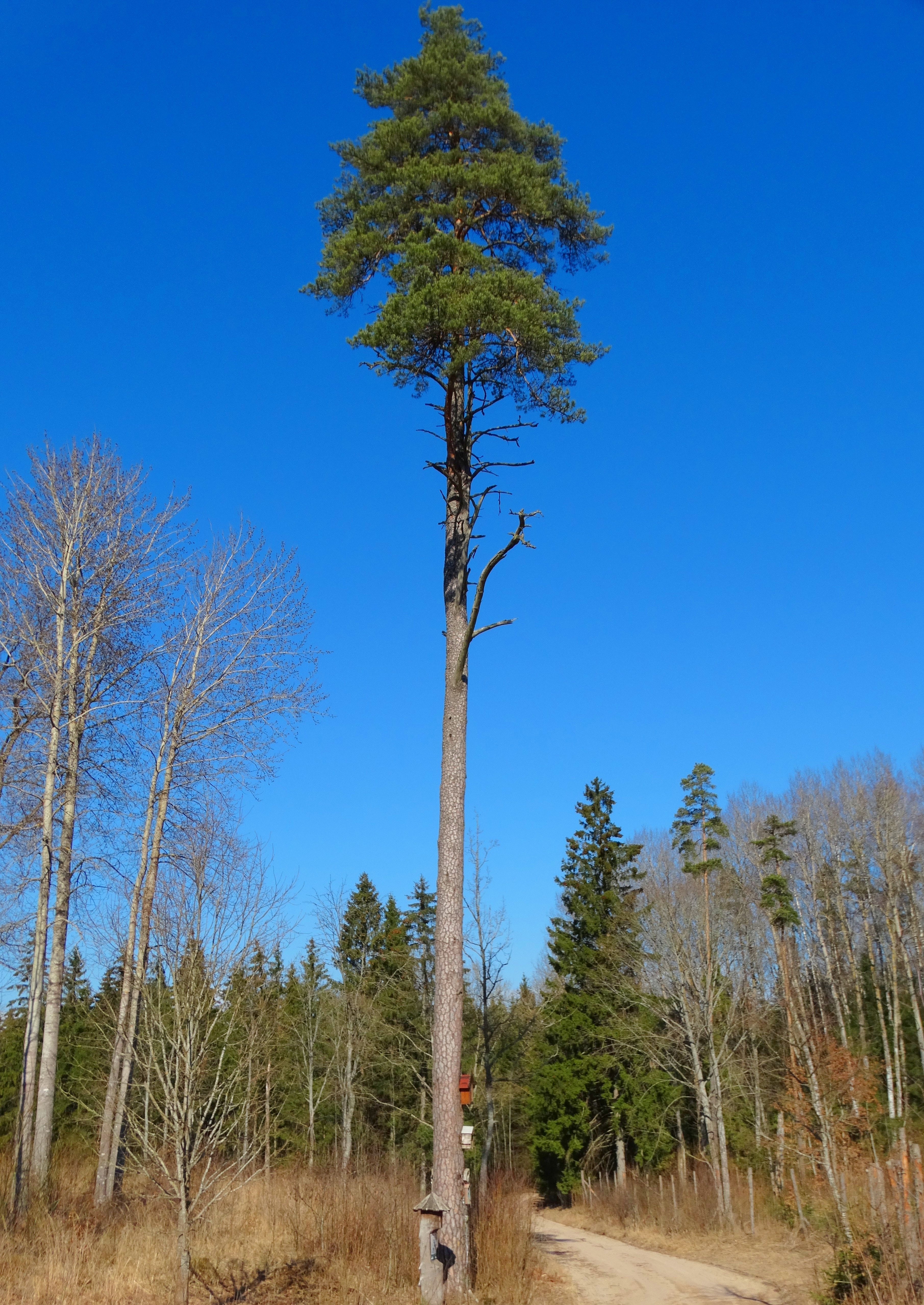 Girnikai Pine tree, Šiauliai district, Lithuania